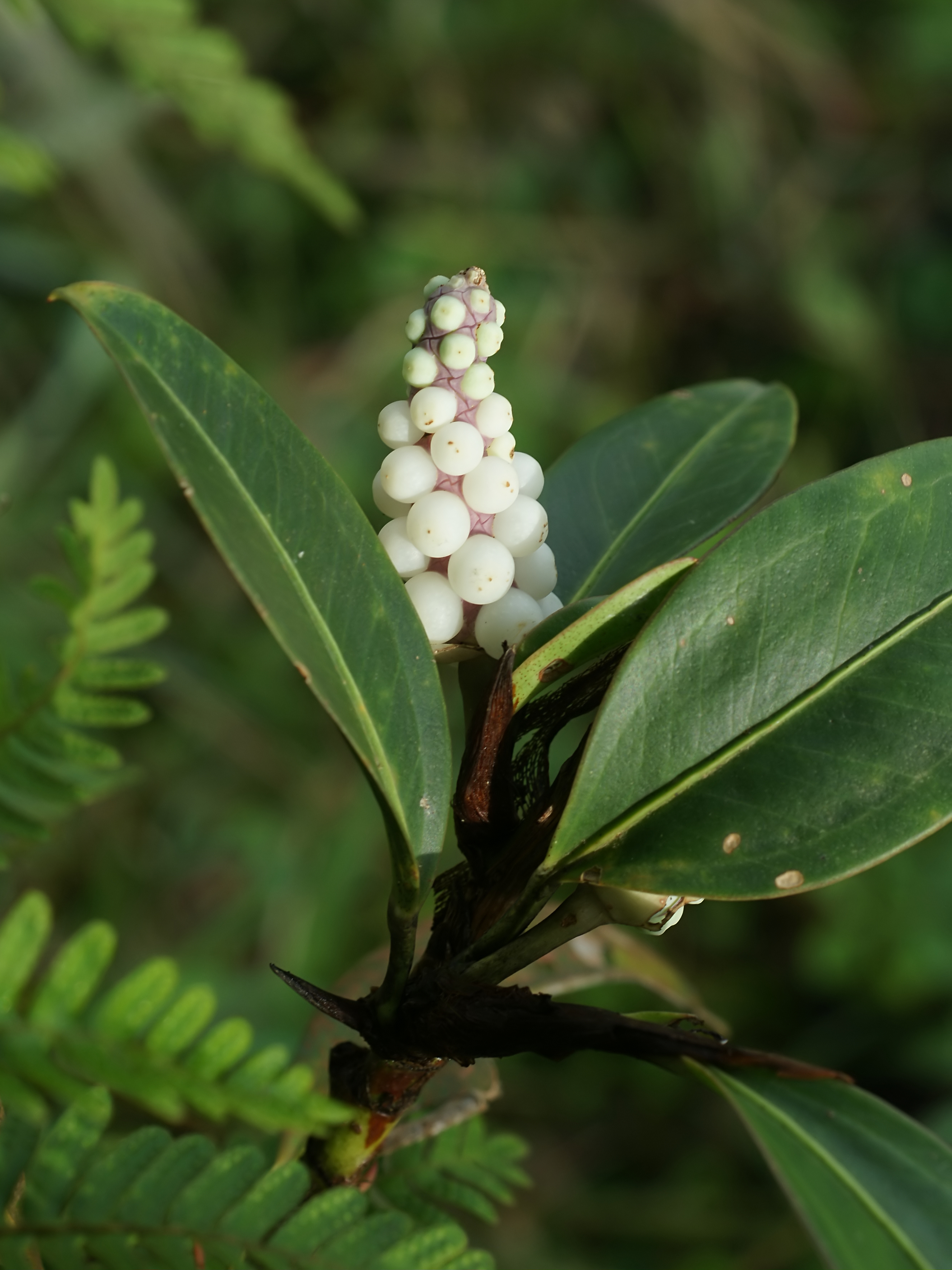 Pearl Laceleaf close to Volcano Arenal, Costa Rica.